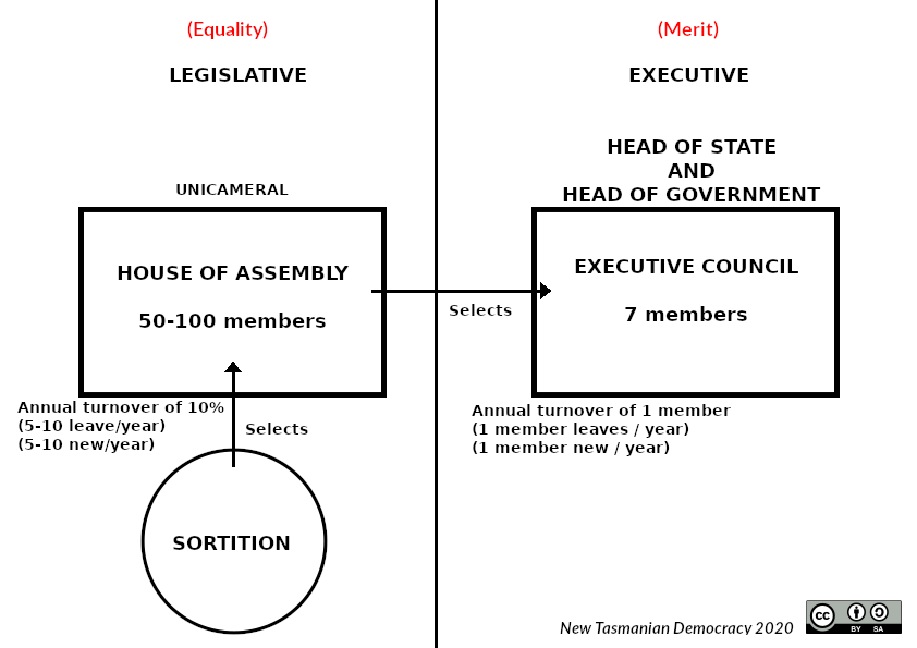 Proposed restructure of Tasmanian state legislature and executive, replacing elections with sortition